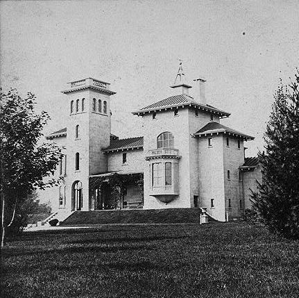 Alexander J. Davis designed "Tuscan Villa" in New Rochelle, New York.